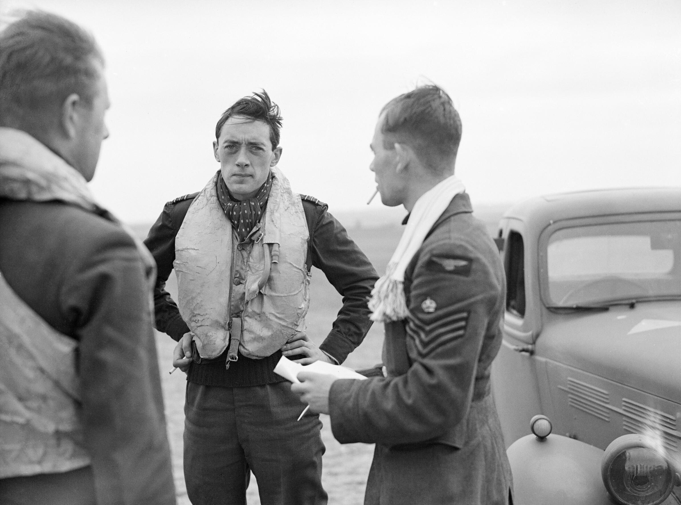 Squadron Leader Brian 'Sandy' Lane, CO of No. 19 Squadron (centre) confers with Flight Lieutenant Walter 'Farmer' Lawson and Flight Sergeant George 'Grumpy Unwin at Fowlmere near Duxford, September 1940. Three pilots of No. 19 Squadron RAF confer at Fowlmere, Cambridgeshire, after a sortie: (left to right): Flight-Lieutenant W J 'Farmer' Lawson Squadron Leader B J E 'Sandy' Lane (Commanding Officer) Flight-Sergeant G C 'Grumpy Unwin